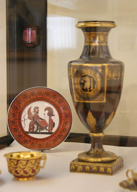 Radishchev Art Museum